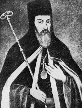 Petru Pavel Aron, O.S.B.M. (1709-1764), eparch of Făgăraş